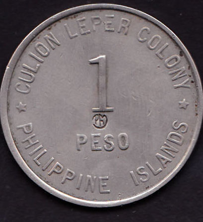 A 1 peso coin of 1922 used in the Culion leper colony in the Philippines